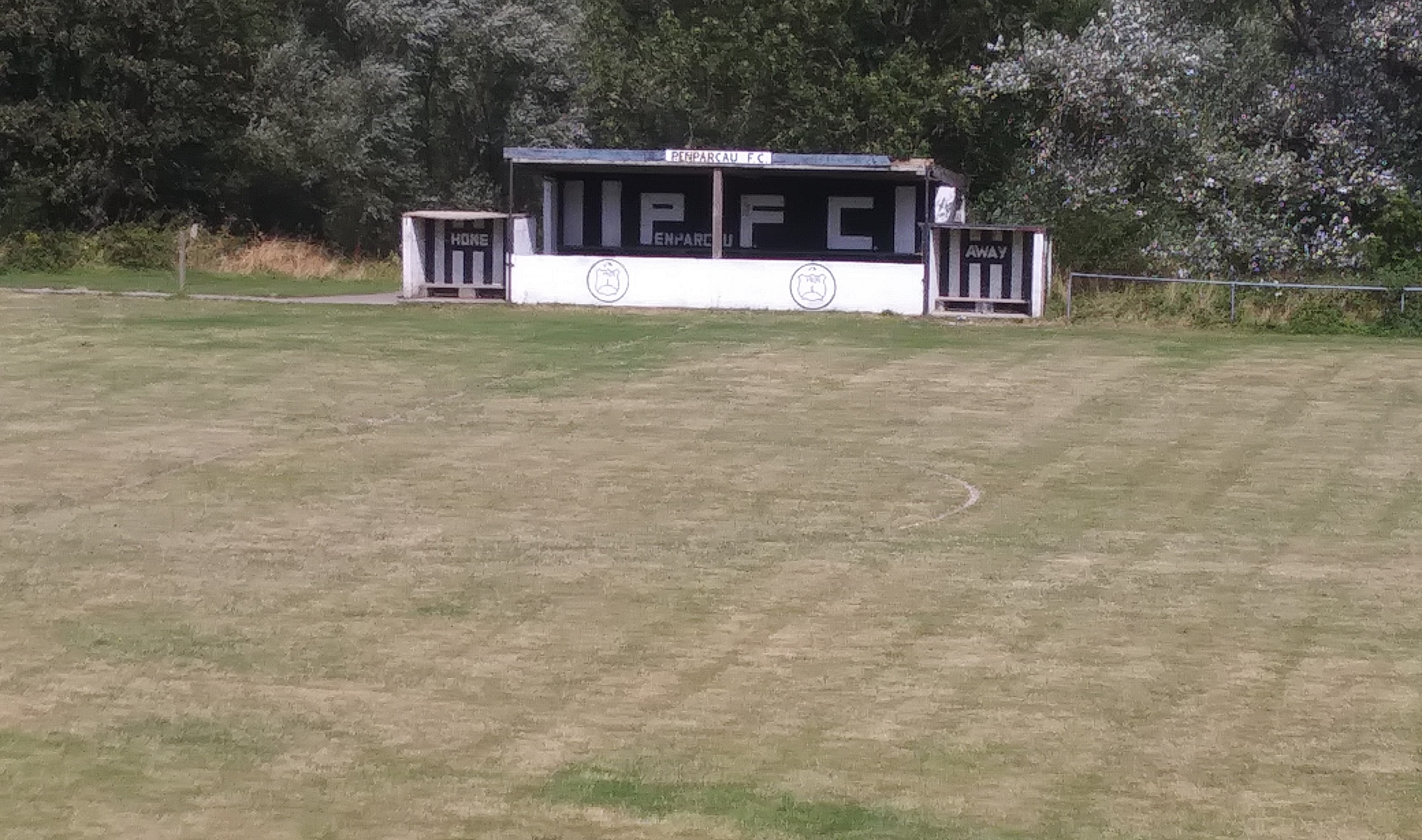 home ground of Penparcau FC, Aberystwyth, Mid Wales League / Aberystwyth and Disctrict League.